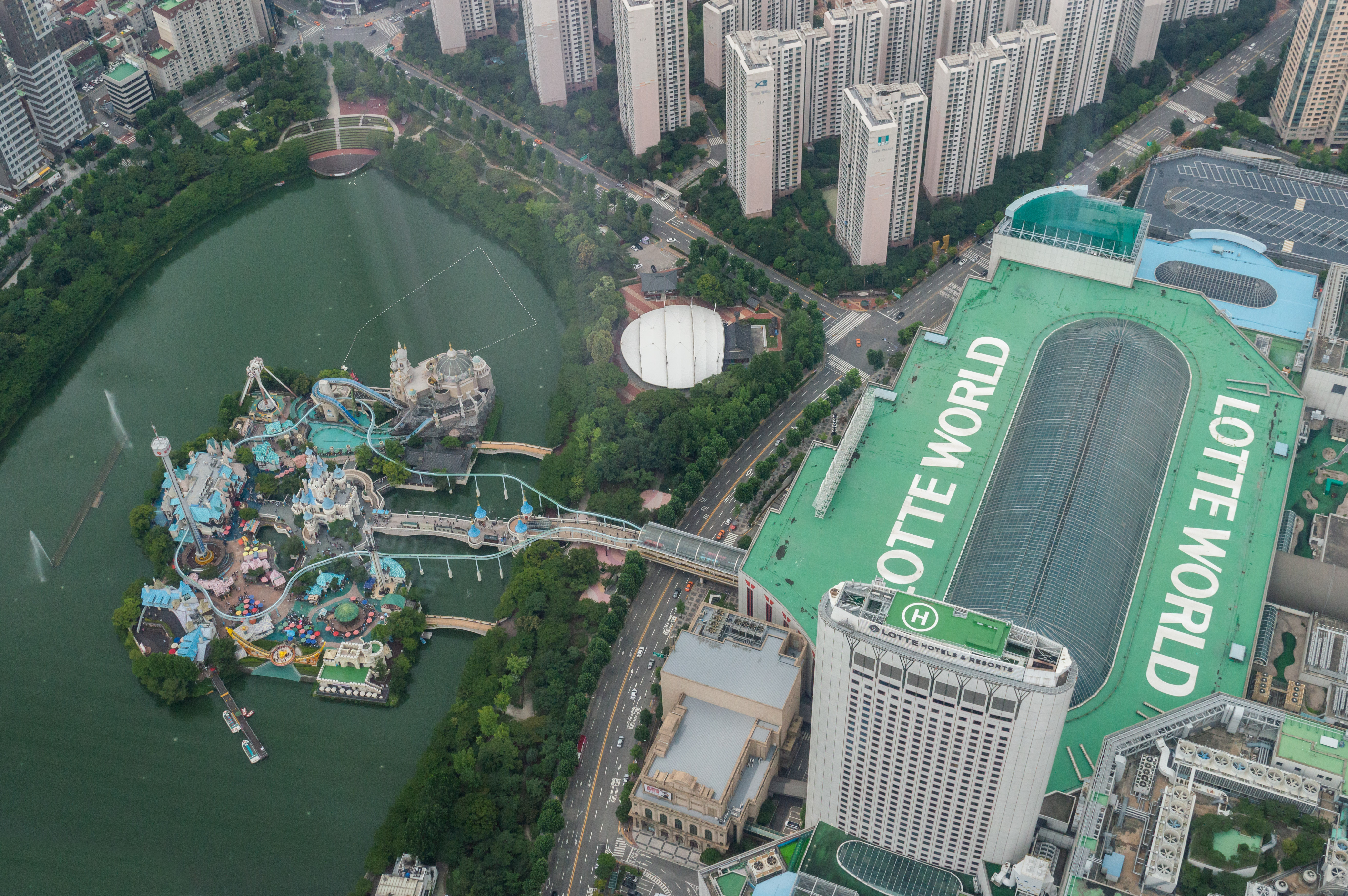 Lotte World and Seokchon Lake, as seen from the observation deck of Lotte World Tower.